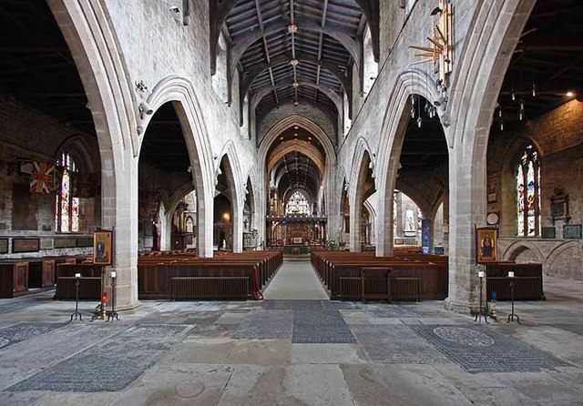 St Nicholas Cathedral, Newcastle - East end